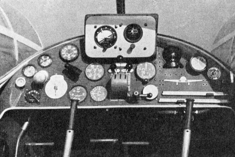 Nardi FN.310 cockpit photo from L'Aerophile July 1939